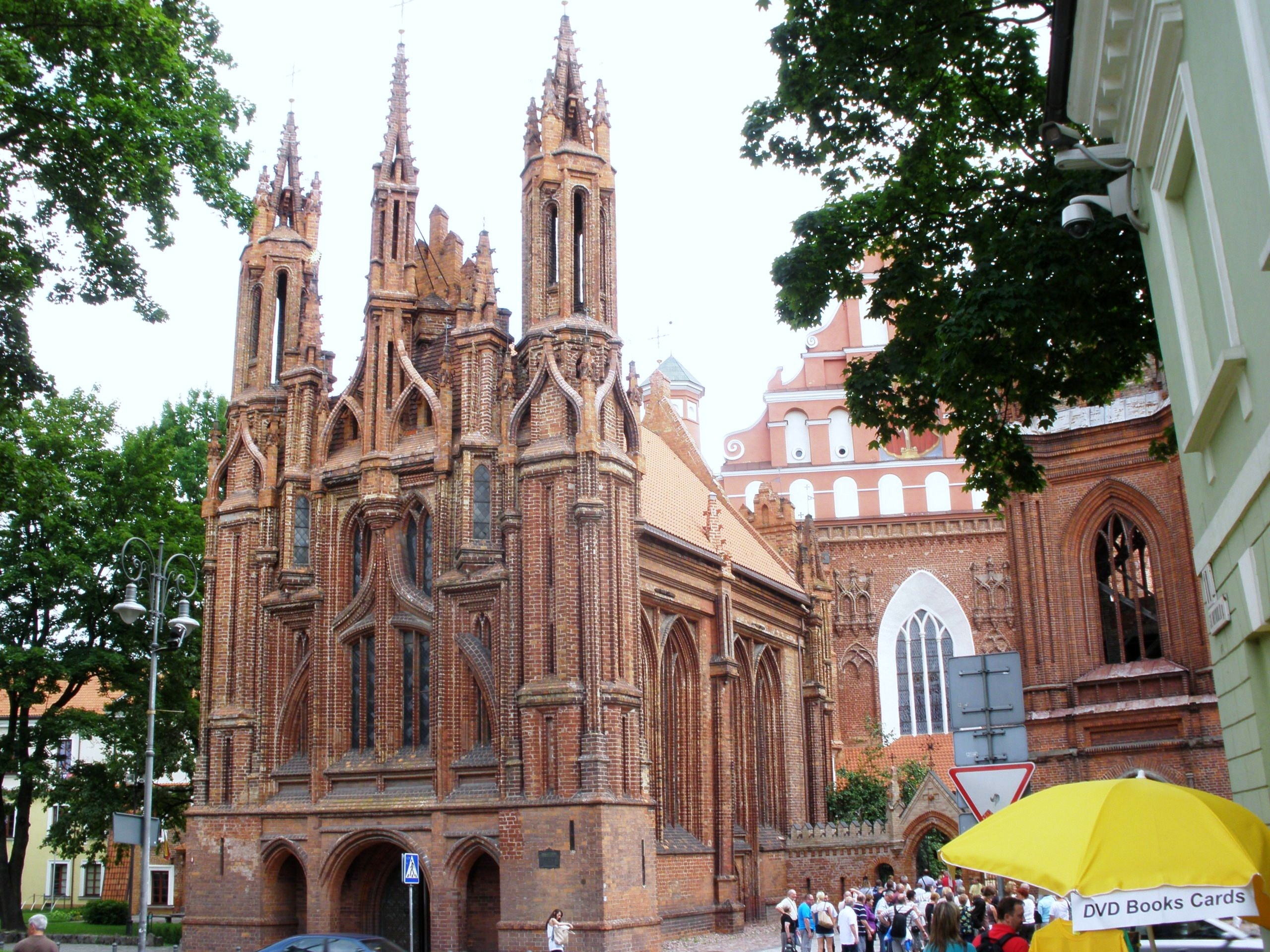 St. Anne's Church in Vilnius, Lithuania